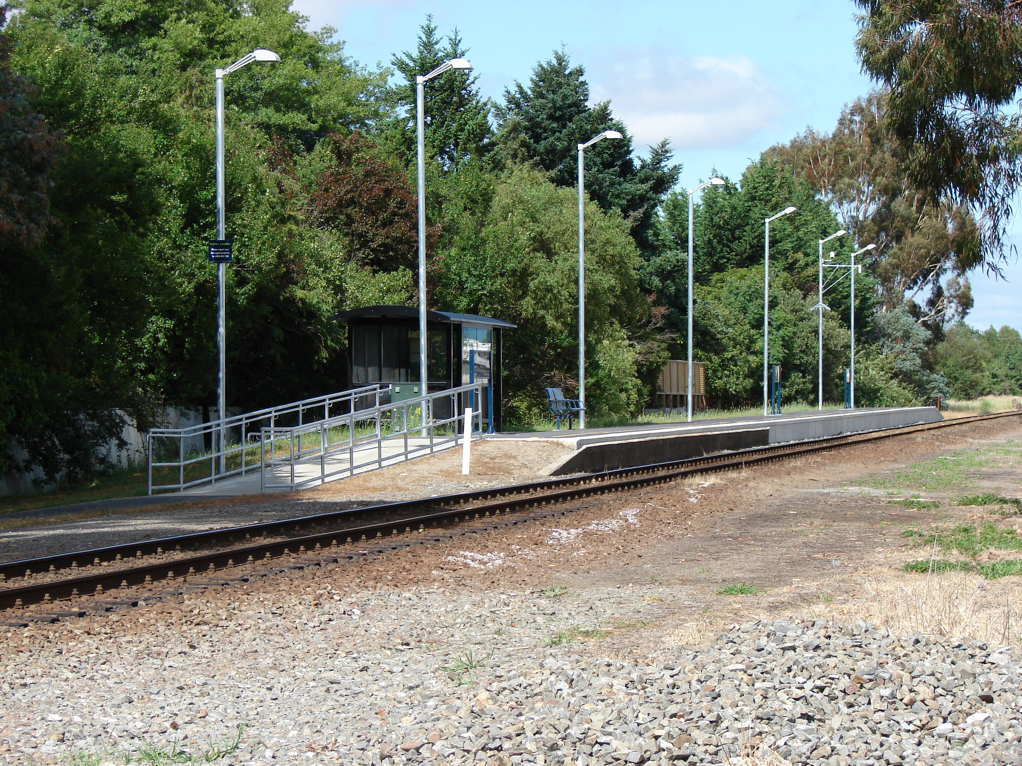 Renall Street railway station. Photographed by Matthew25187 on 2007-12-15.